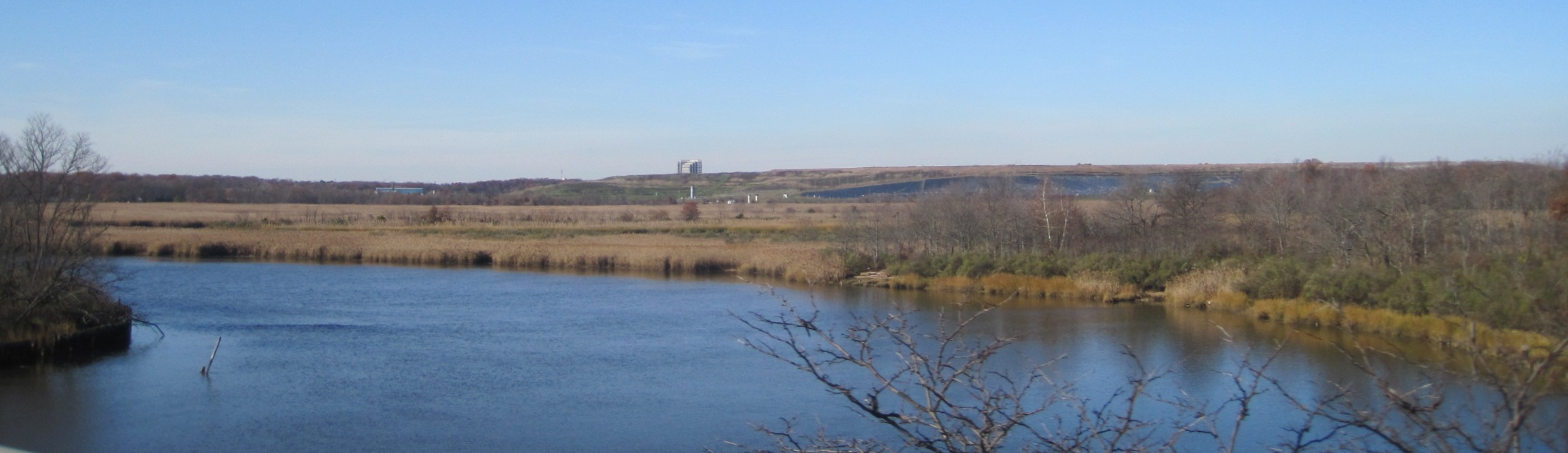 Photo of the South River looking north from the bridge that carries County Route 535 between South River and Sayreville, New Jersey.